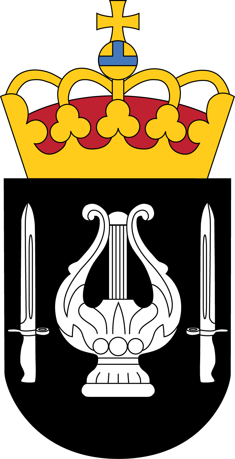 Offisiell logo